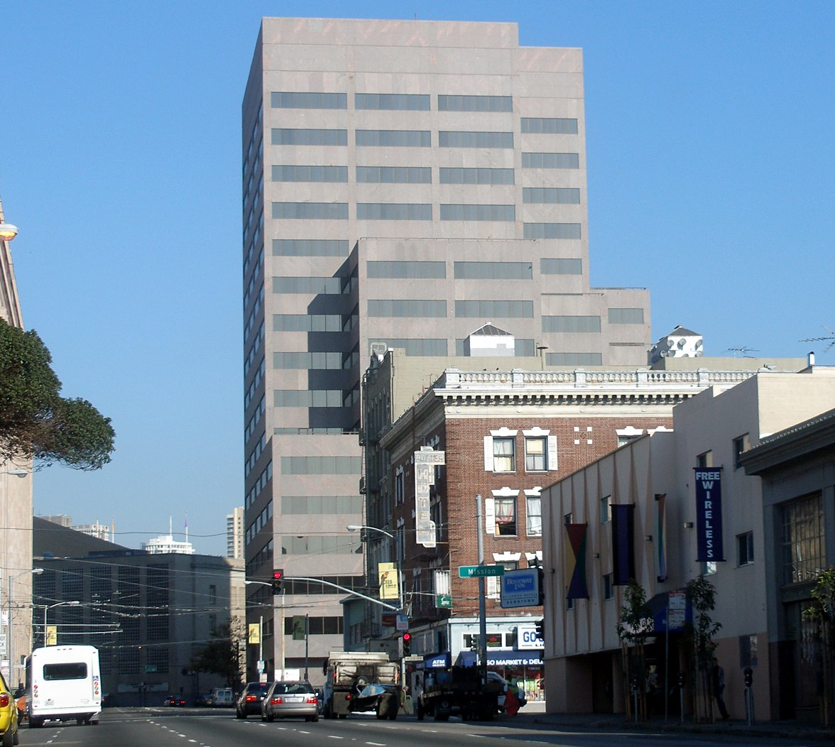 This modest skyscraper in San Francisco at 1275 Market Street was for many years the home office of California's State Compensation Insurance Fund. Since September 2015, it has served as the headquarters of Dolby Laboratories.